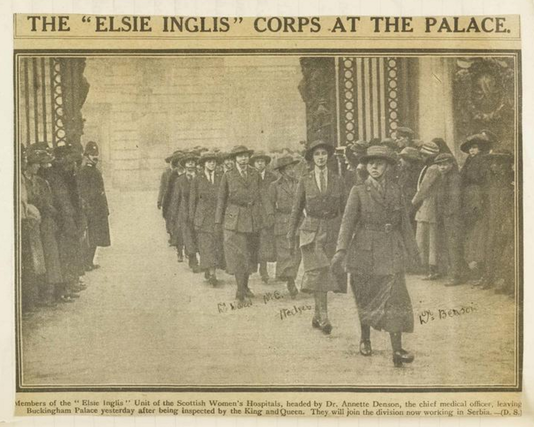 The inspection of the unit at Buckingham Palace. Names written on the paper by Ethel Moir.